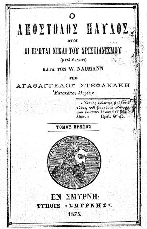 Apostle_Paul